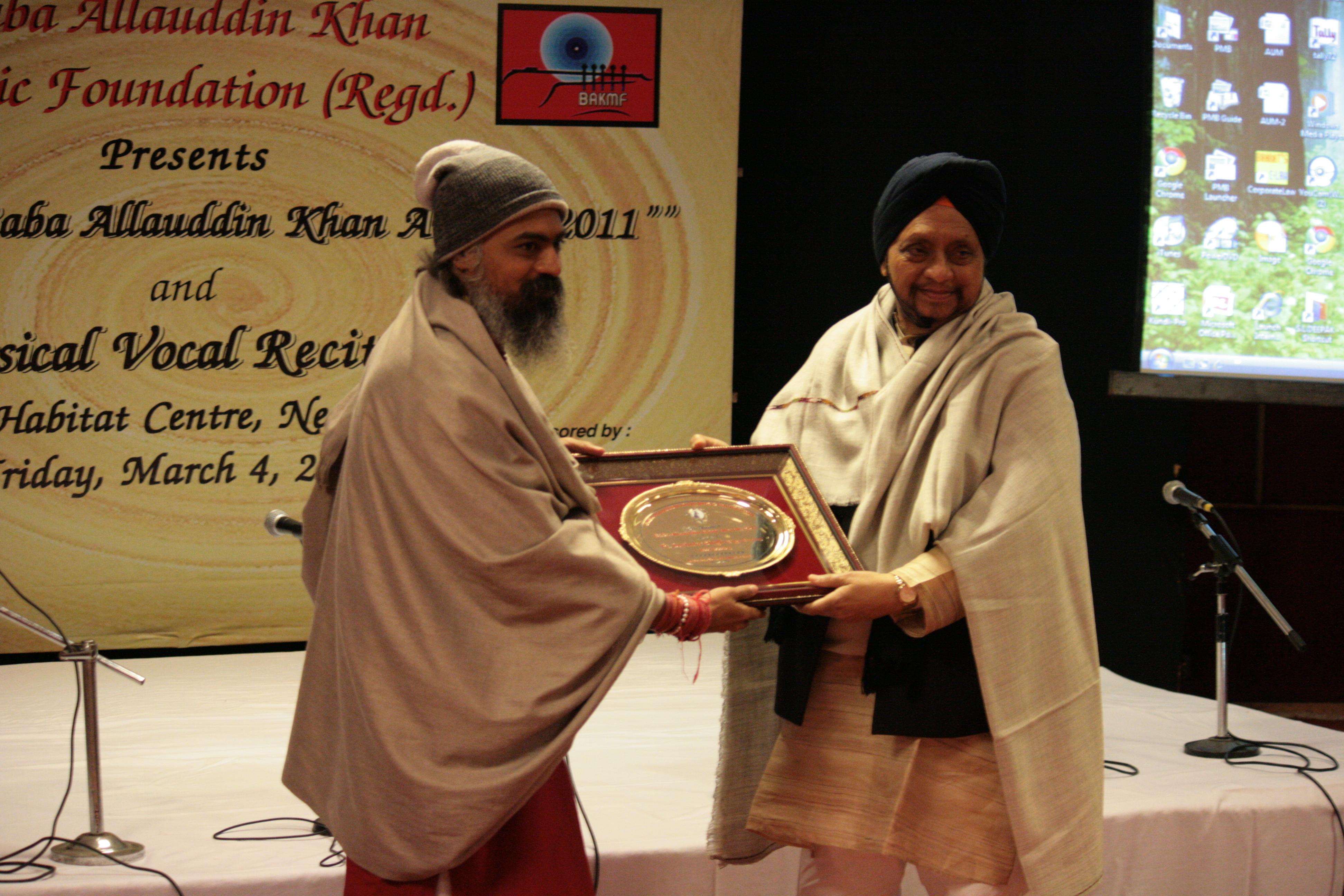 Yogi-arwind with Padmashri Singh Bandhu, at Baba Allauddin Khan Awards, Delhi